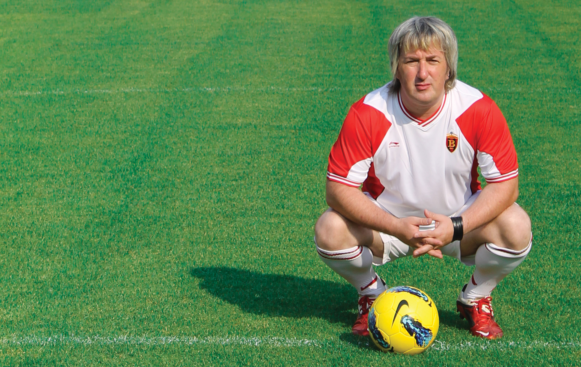 photo: Bojan Simovski